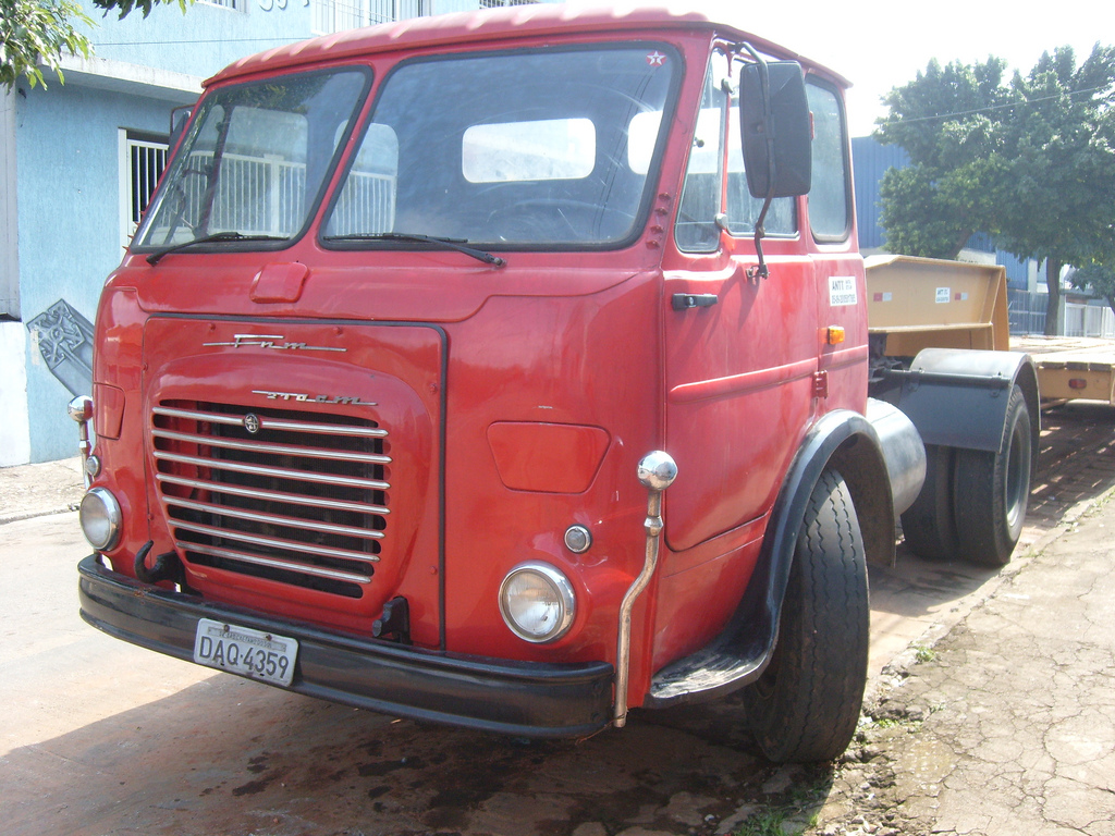 FNM 210 truck.